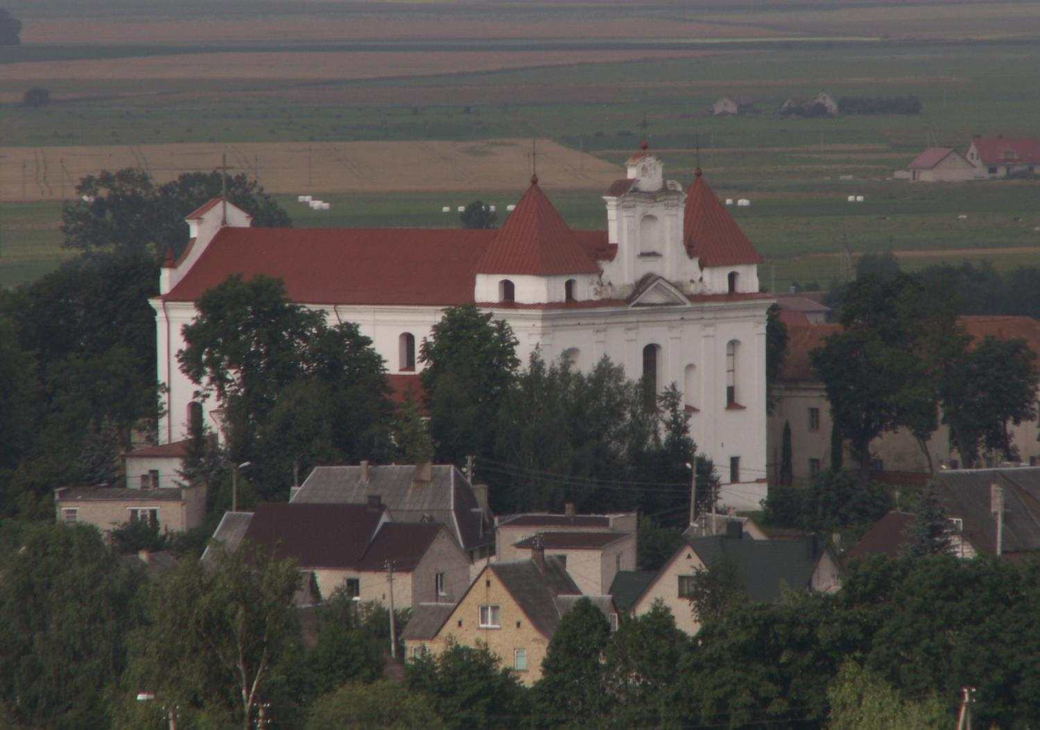 Church in Raseiniai, Lithuania, view from the former water supply